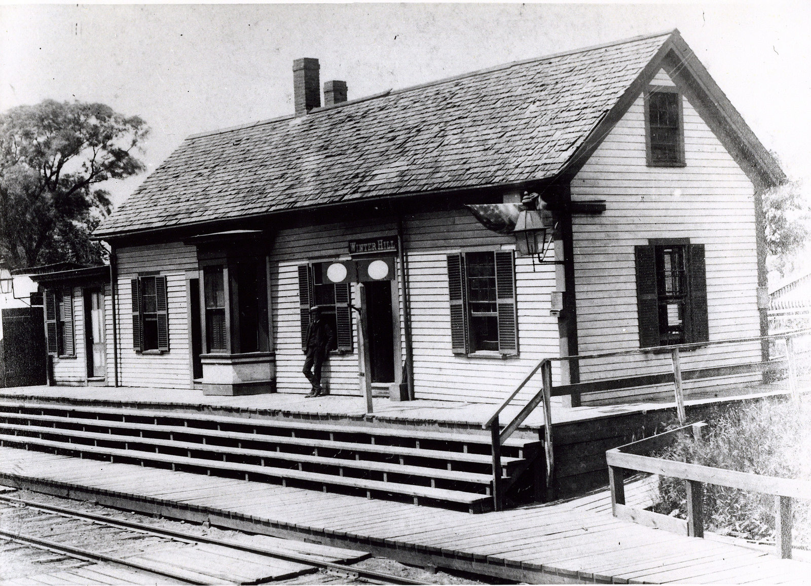 The original Winter Hill station, likely in the 1880s. It was replaced with a stone station in 1888.